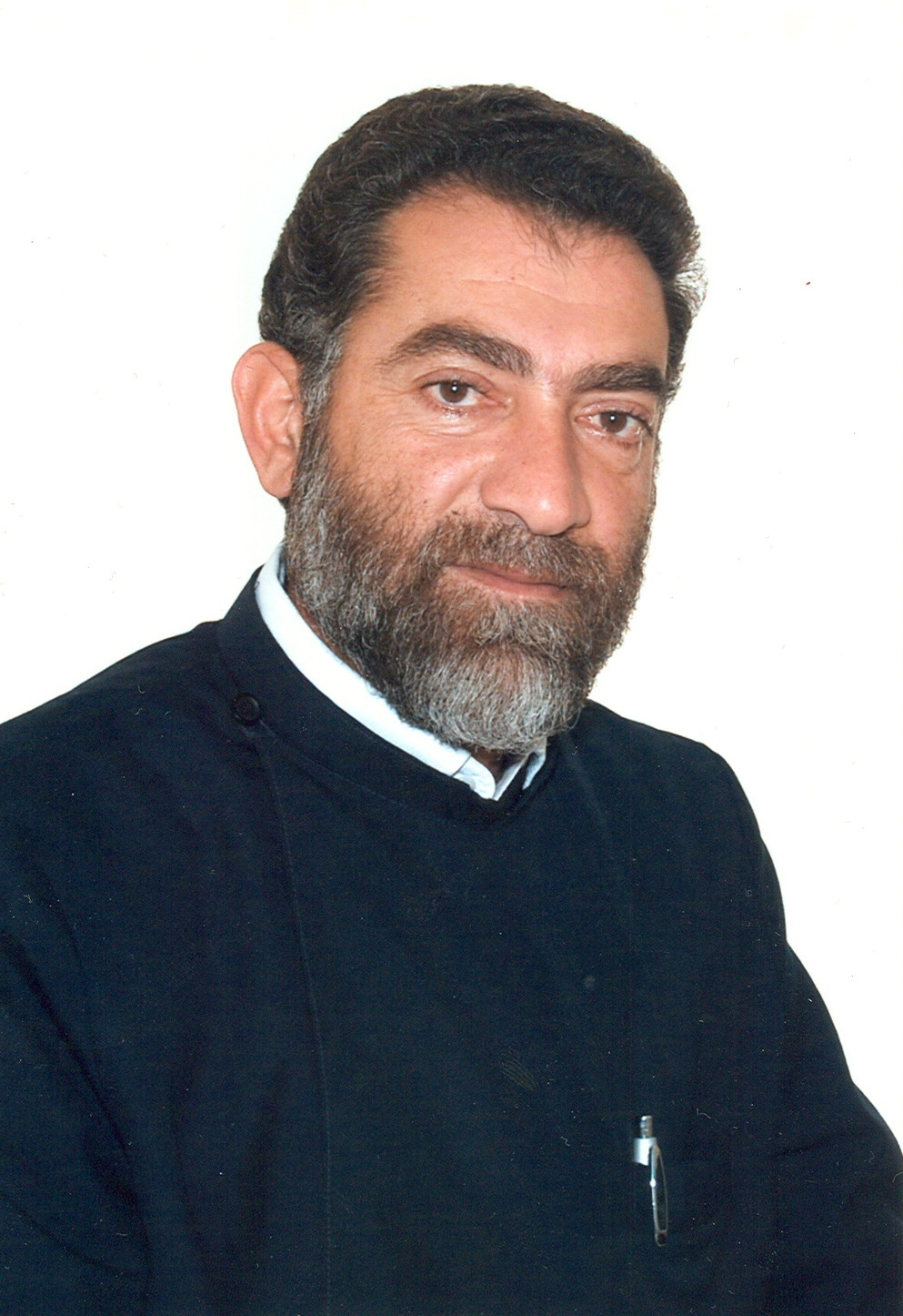 Bishop Sebouh Chouldjian, Primate of the Diocese of Gougark of the Armenian Apostolic Church